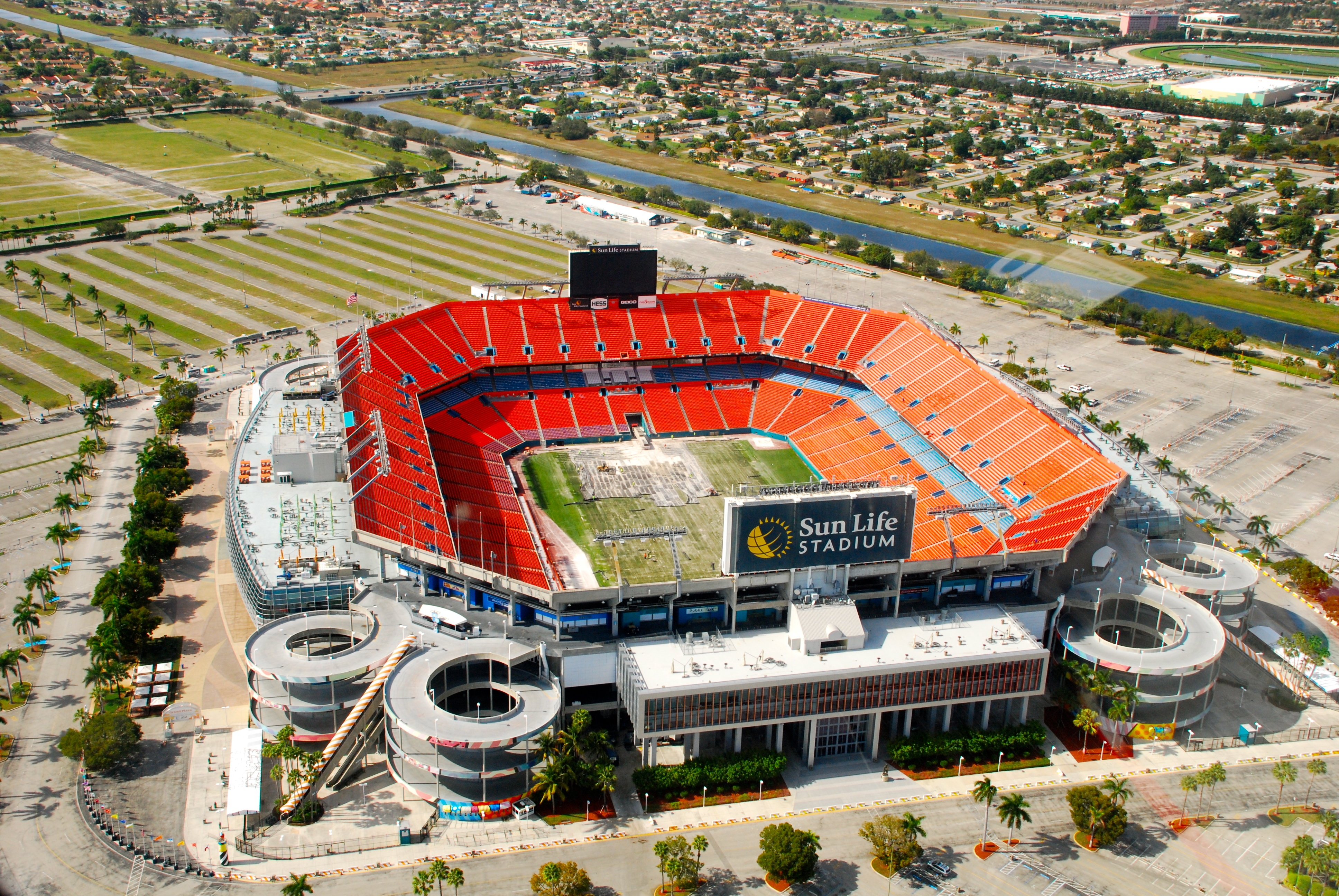 Aerial photograph of Sun Life Stadium in 2012.